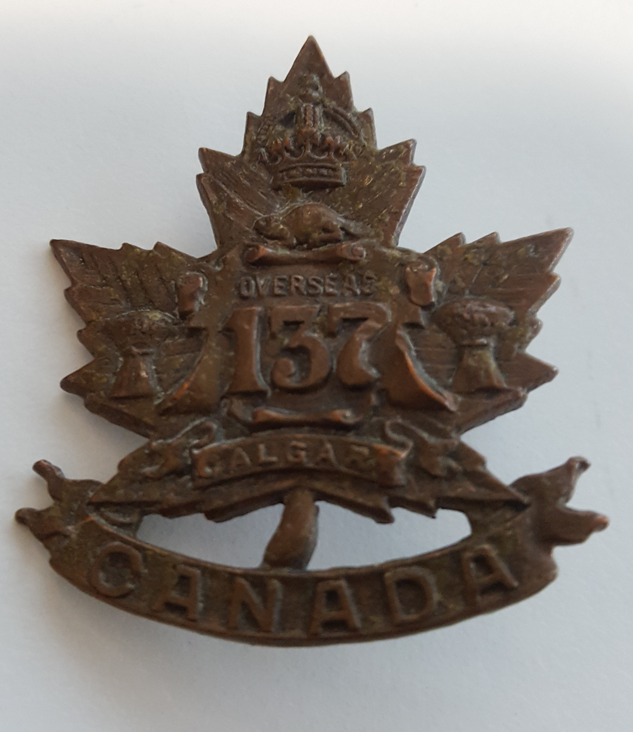 Cap Badge created for the battalion by D.E. Black, Calgary, AB.